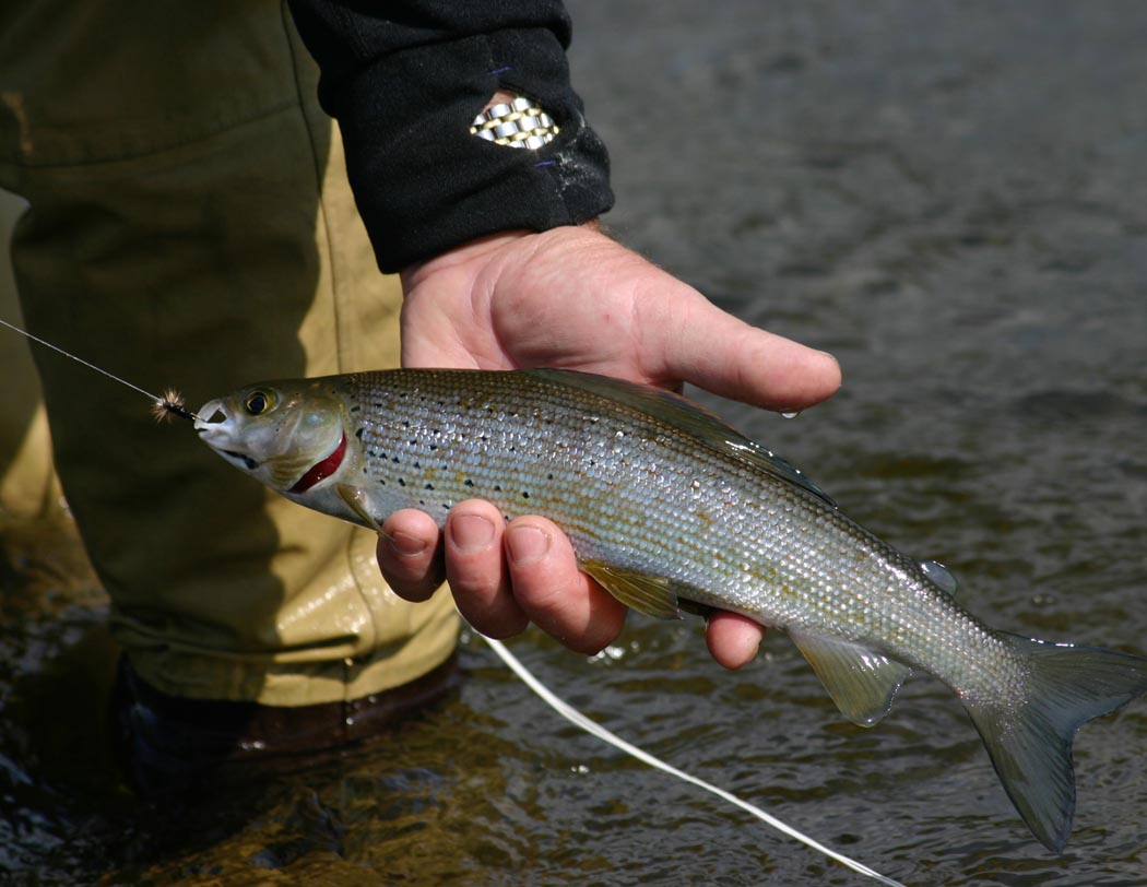 Arctic Grayling (Thymallus arcticus) from Gulkana River, Alaska